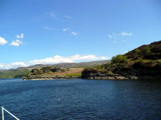 Approaching Buttock Point This is the northern tip of the island of Bute.